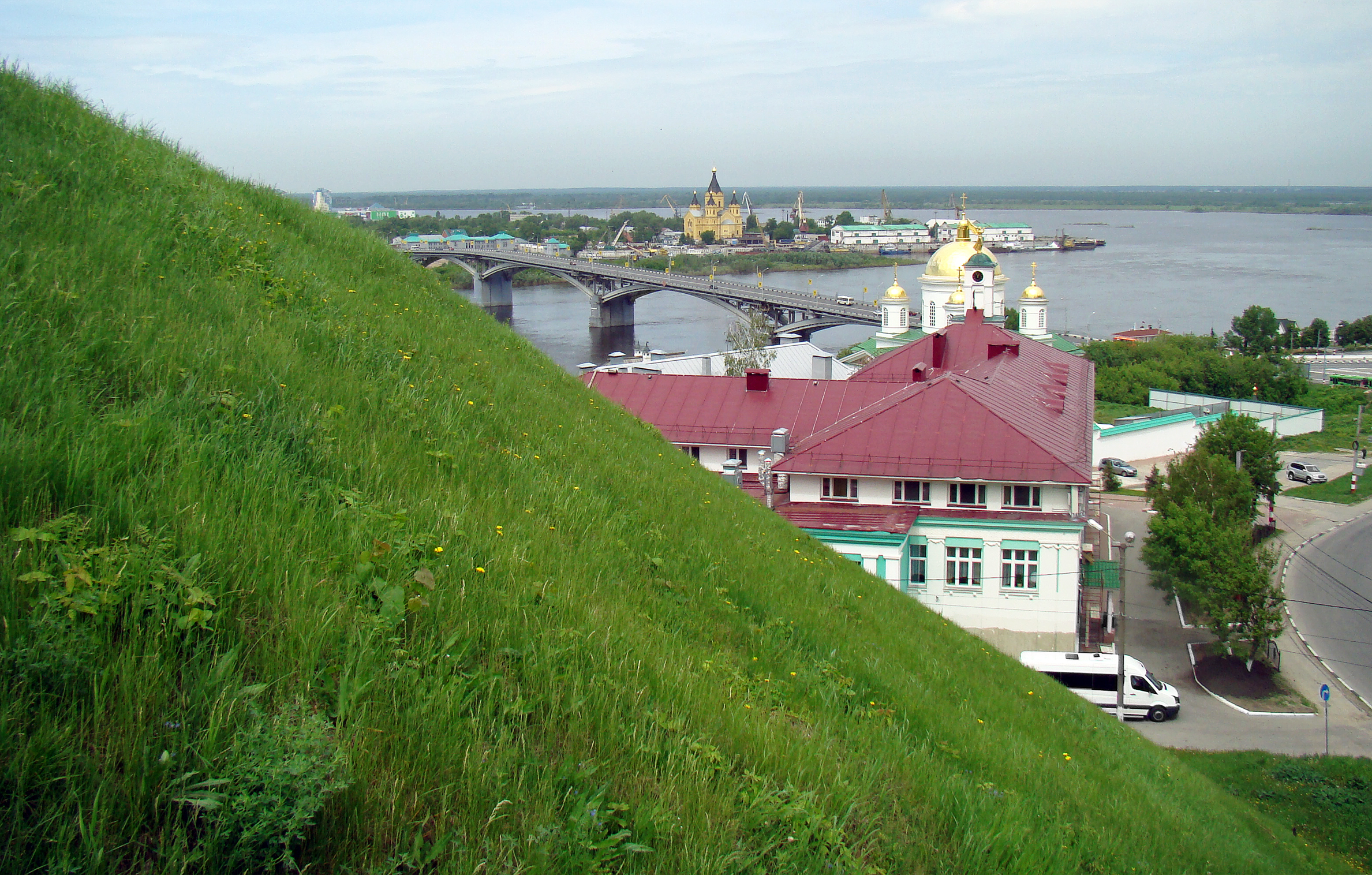 Nizhny Novgorod. View from hill to the Kanavino bridge. There are Alexander Nevsky Cathedral (on the background) and Annunciation Monastery (on front).